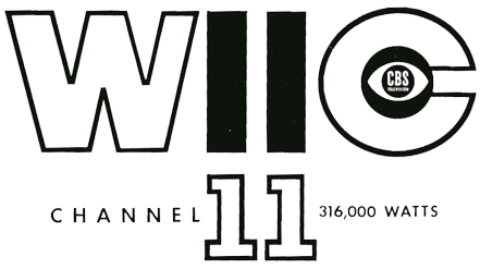 Proposed logo for WIIC-TV. Was never used due to WIIC-TV affiliating with NBC before station went on the air.